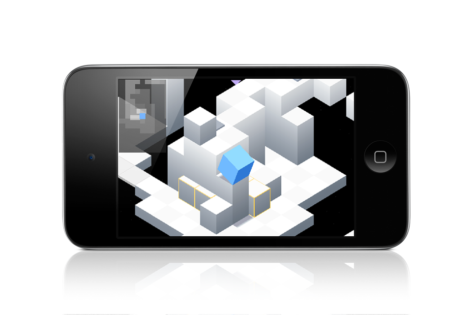 Edge gameplay mockup on horizontal iPod